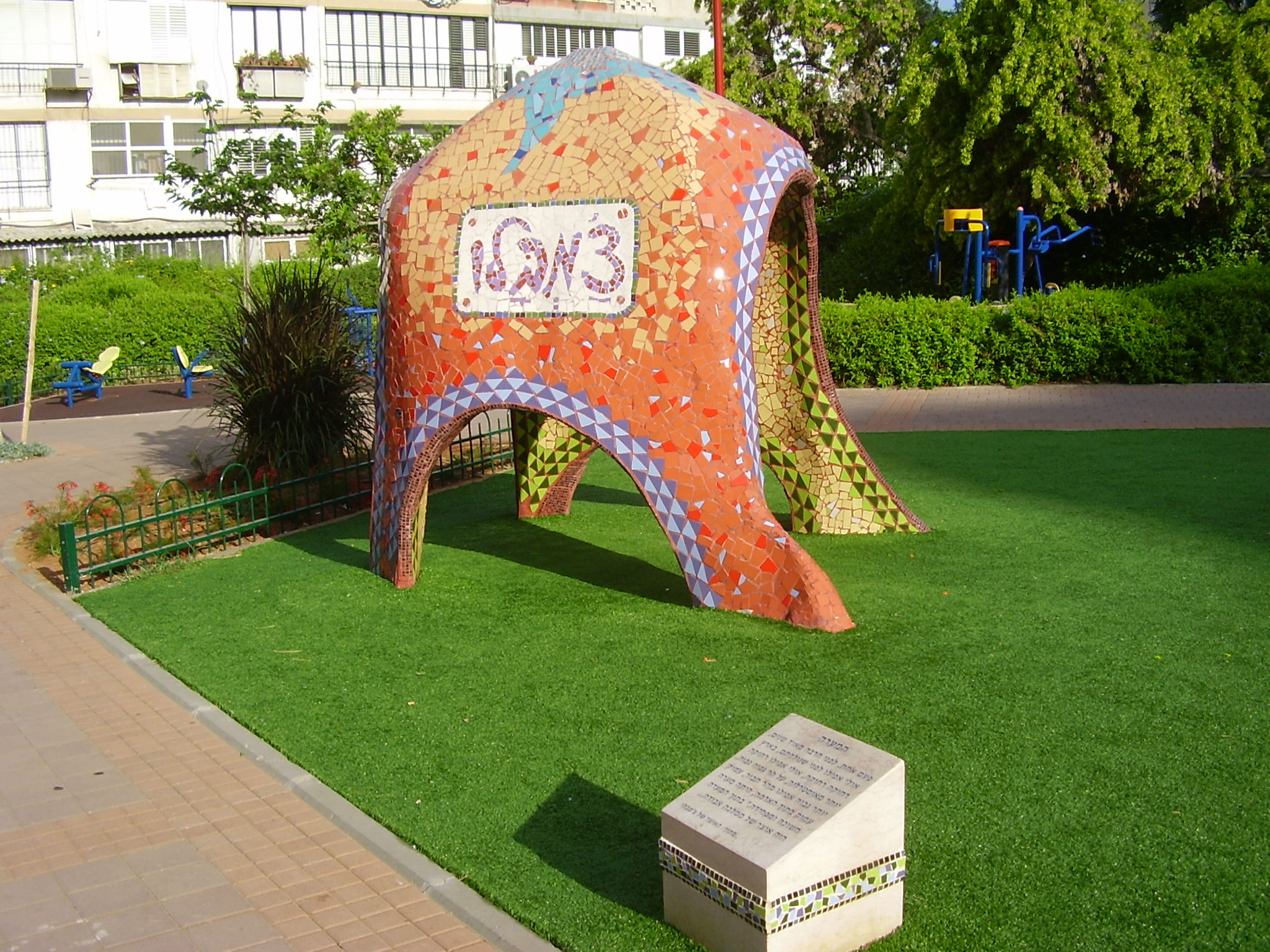 Story Garden \"the treasure of chambaloo\" in holon